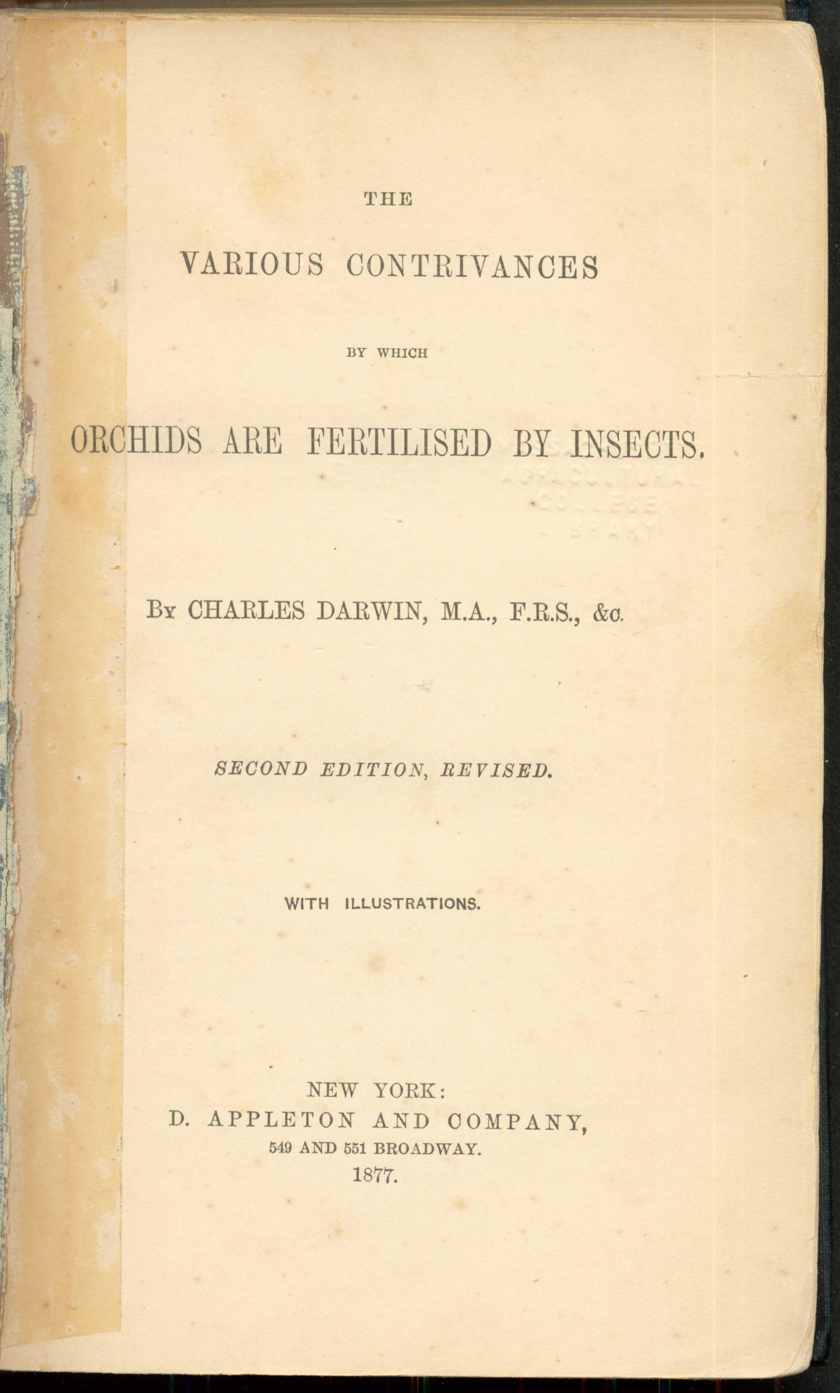 Frontispiece of the 1877 edition of Charles Darwin's Fertilisation of Orchids. Scanned from a copy of the work at the University of Massachusetts Amherst.